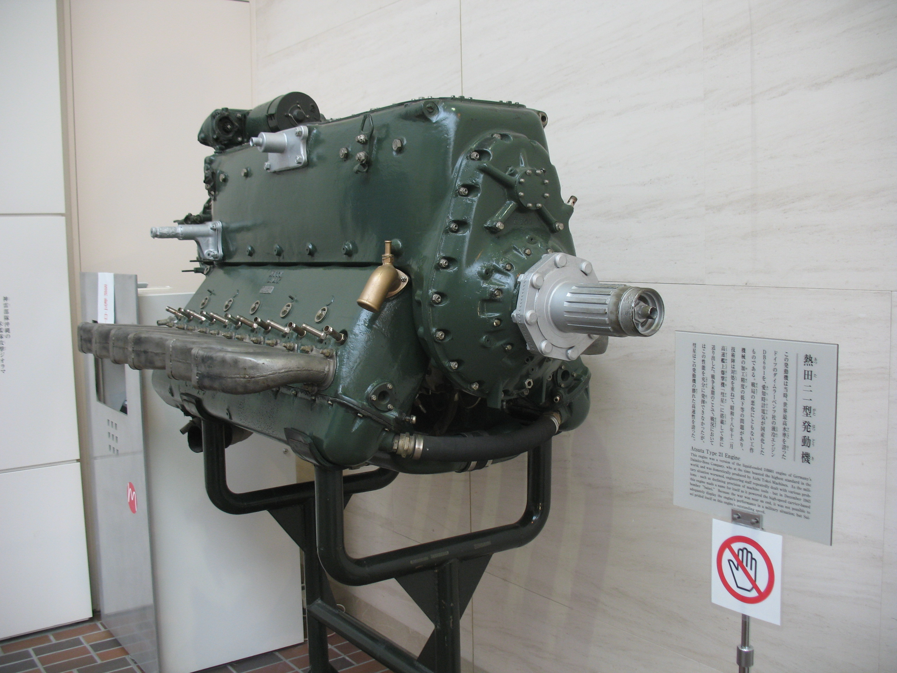 Aichi Atsuta 21